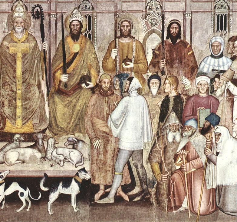 Scene with the faithful on the left, a group of about five dozen figures representing Christendom, and illustrating the religious and secular hierarchies. At the center are pope and emperor. The secular figures range from the emperor down to beggars and cripples. Behind them is the great Florentine Duomo, representing the Church.